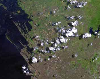 The raw satellite imagery shown in these images was obtain from NASA and/or the US Geological Survey. Post-processing and production by